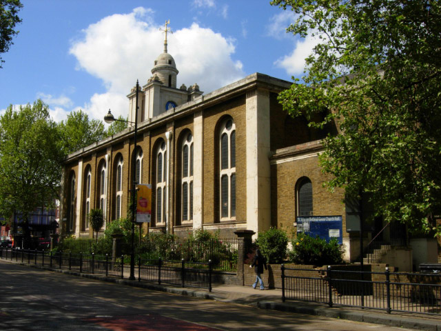 St John on Bethnal Green, near to Bethnal Green, Tower Hamlets, Great Britain. Seen here from Roman Road, St John on Bethnal Green was built between 1826 and 1828 to a design by Sir John Soane.